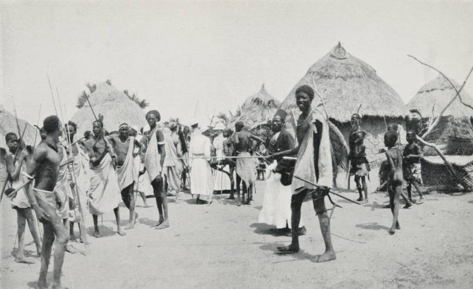 ENGLISH LADIES “SHOPPING” IN A SHILOUK VILLAGE. A group of English women wander through a crowd of tribal people.